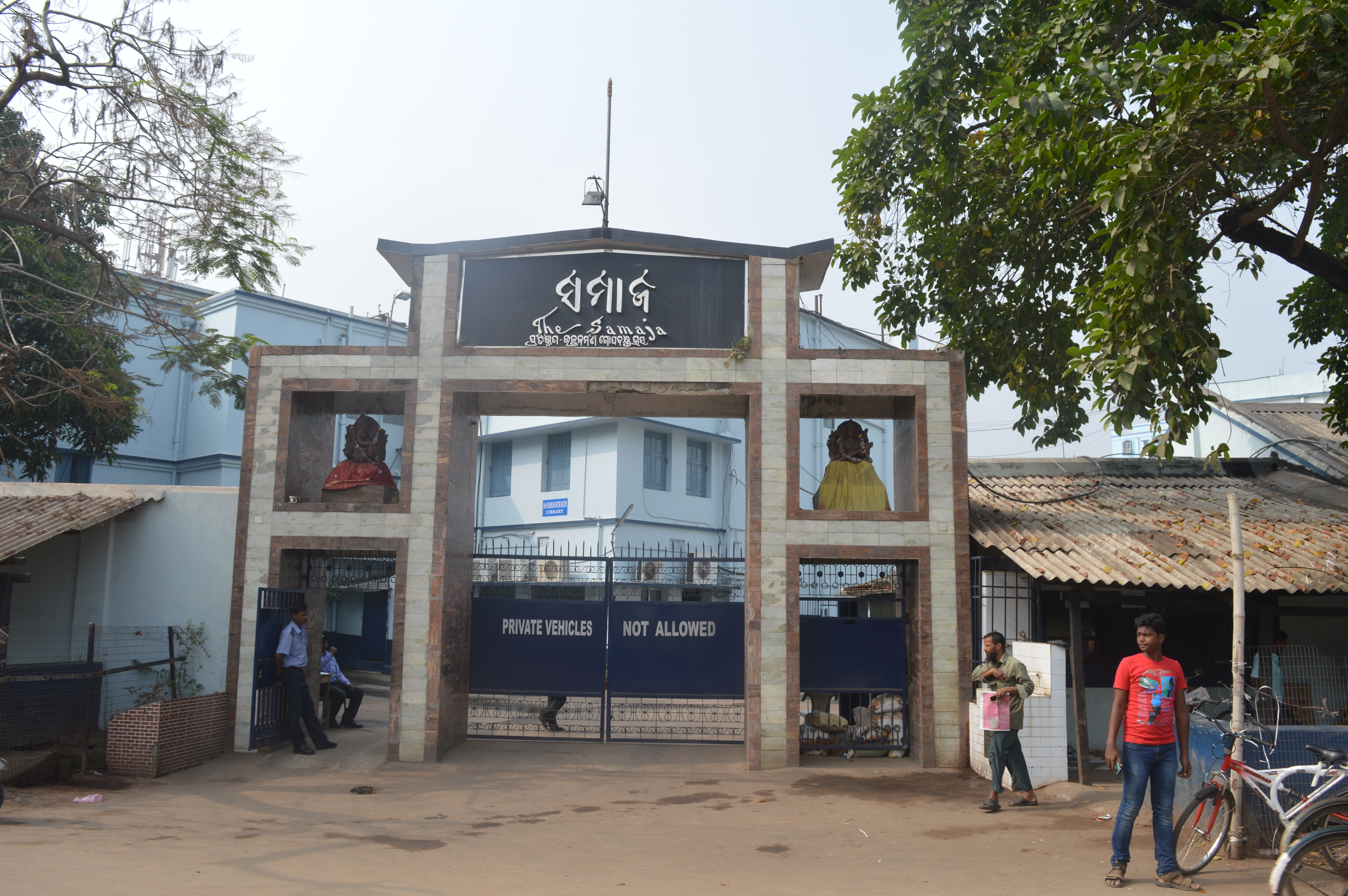 Offices of The Smaja, Cuttack